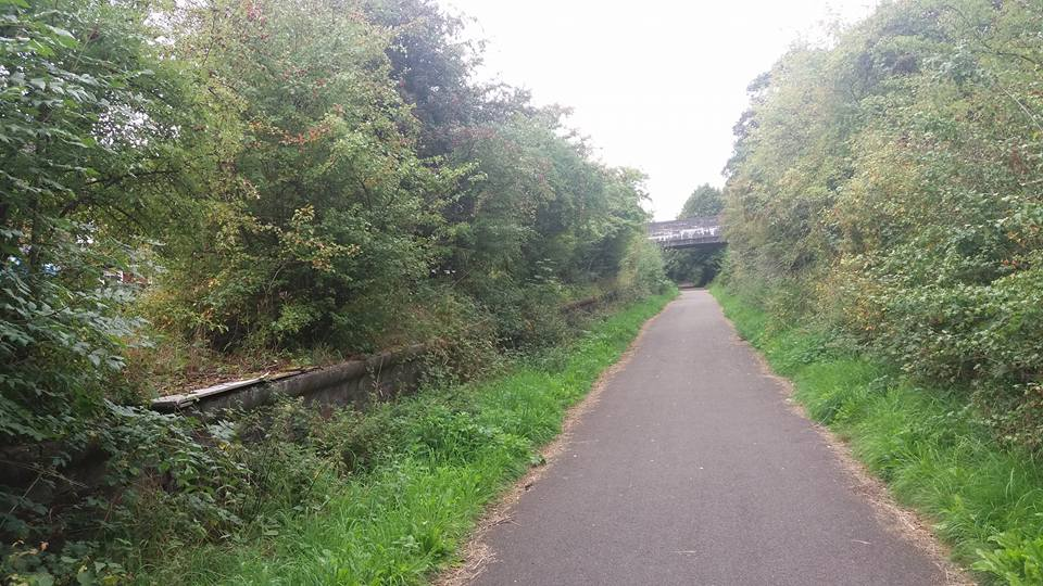 My own.